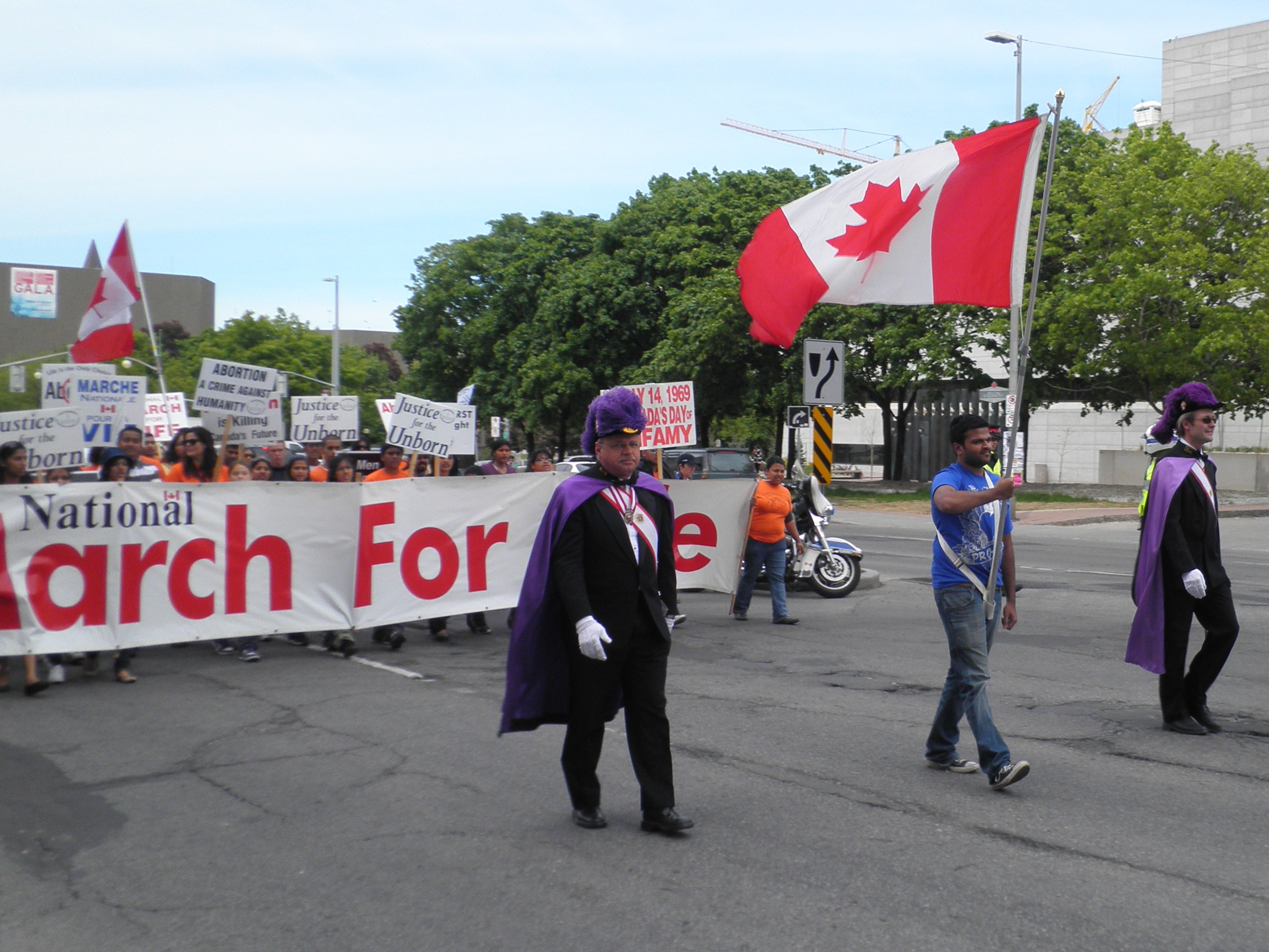 National March for Life in Ottawa, Ontario, in 2010.